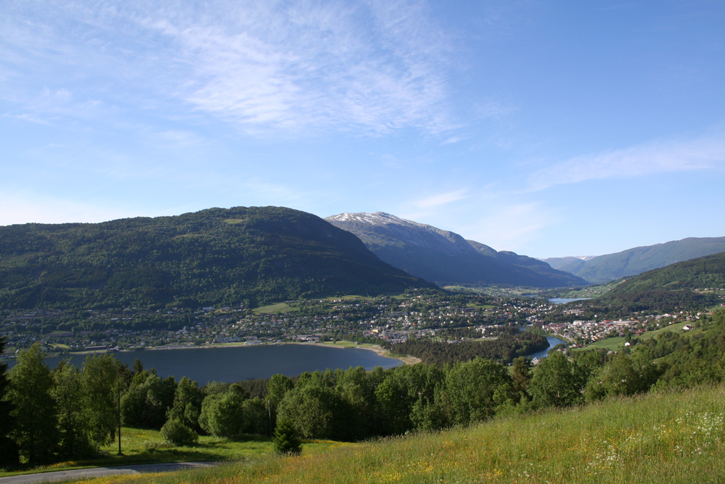 Picture of Voss taken from Bordalen